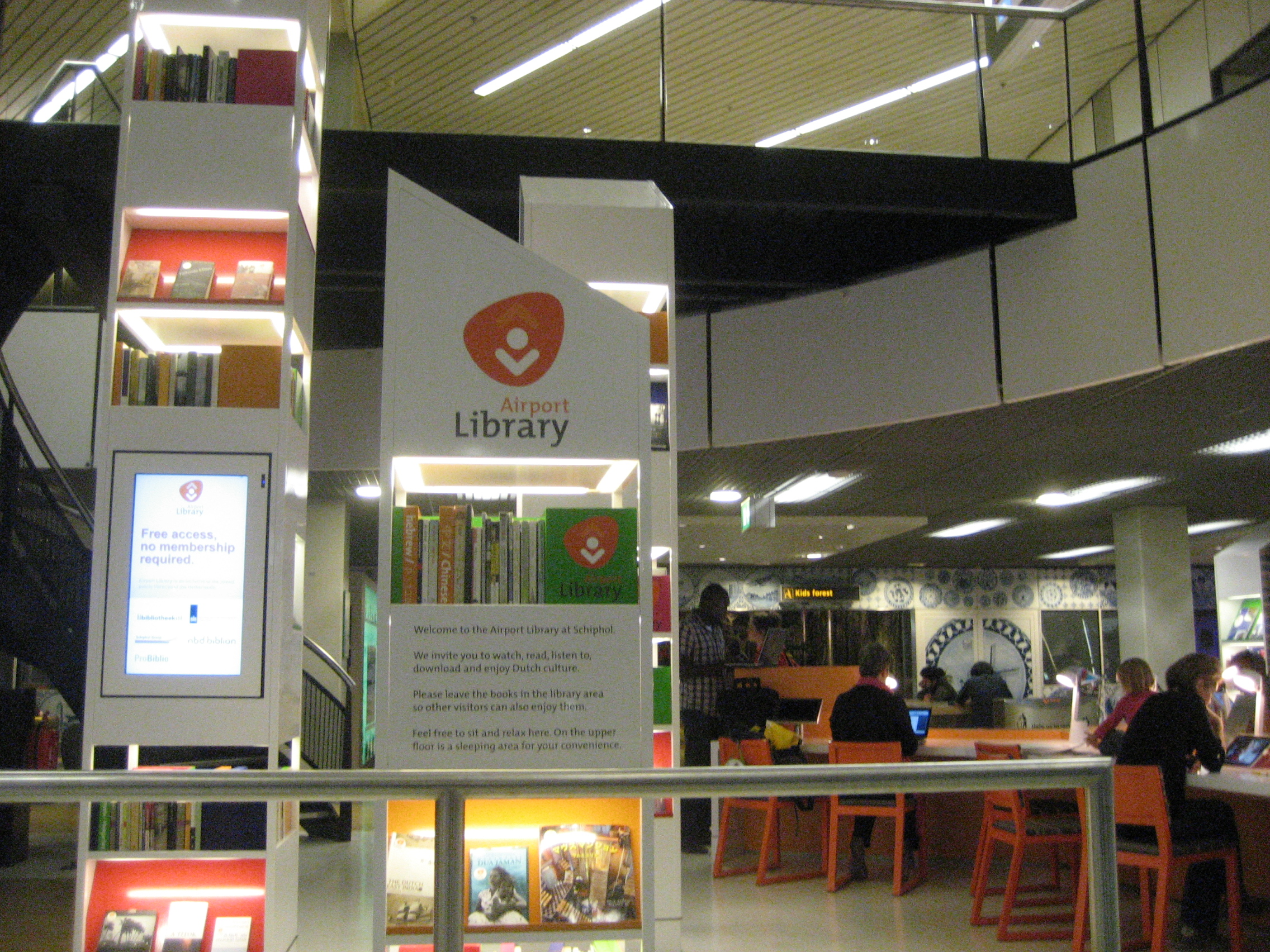 Public library at Schiphol Airport (The Netherlands), Febr. 2014